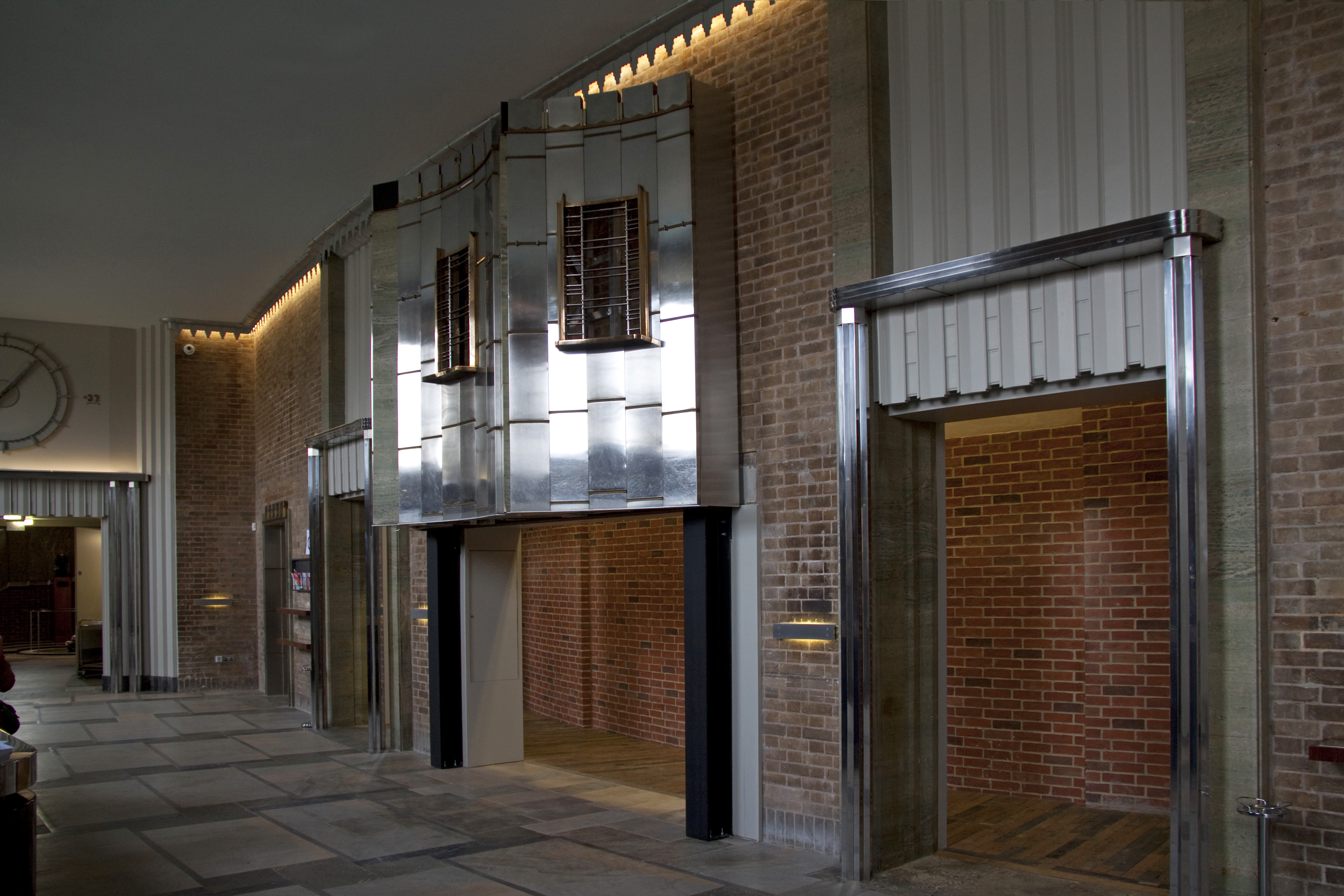 The original 1930s entrance hall to the Royal Shakespeare Theatre. The new build has kept some of the original Art Deco features